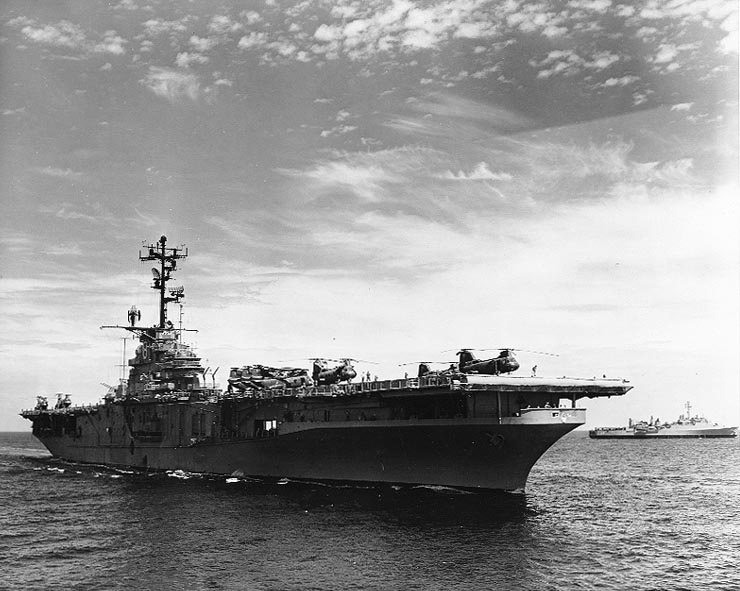 The U.S. Navy amphibious assault ship USS Valley Forge (LPH-8) with Marine Corps Boeing-Vertol CH-46 Sea Knight helicopters embarked, probably during operations off South Vietnam, circa 1968. the dock landing ship USS Thomaston (LSD-28) is in the background, at right.